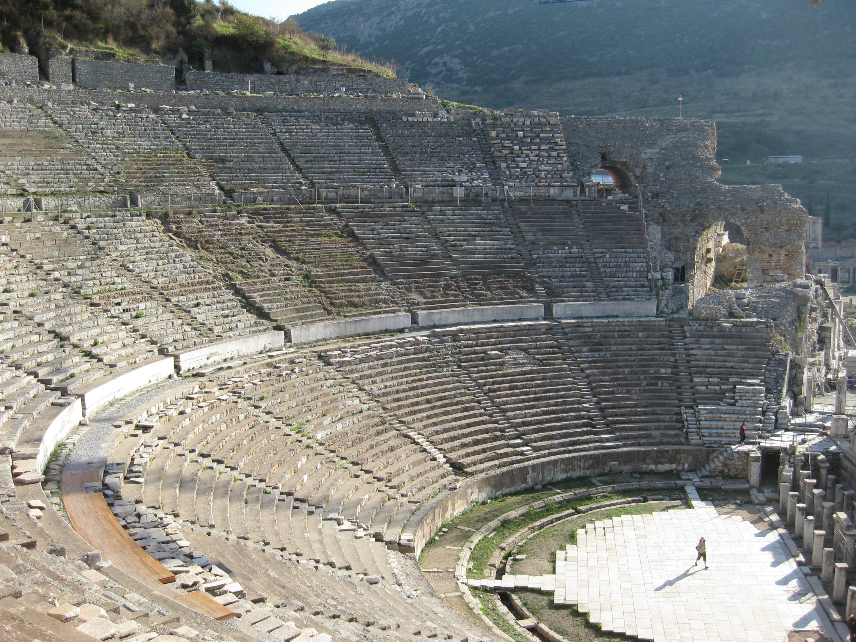 Photograph of the Theater at Ephesus